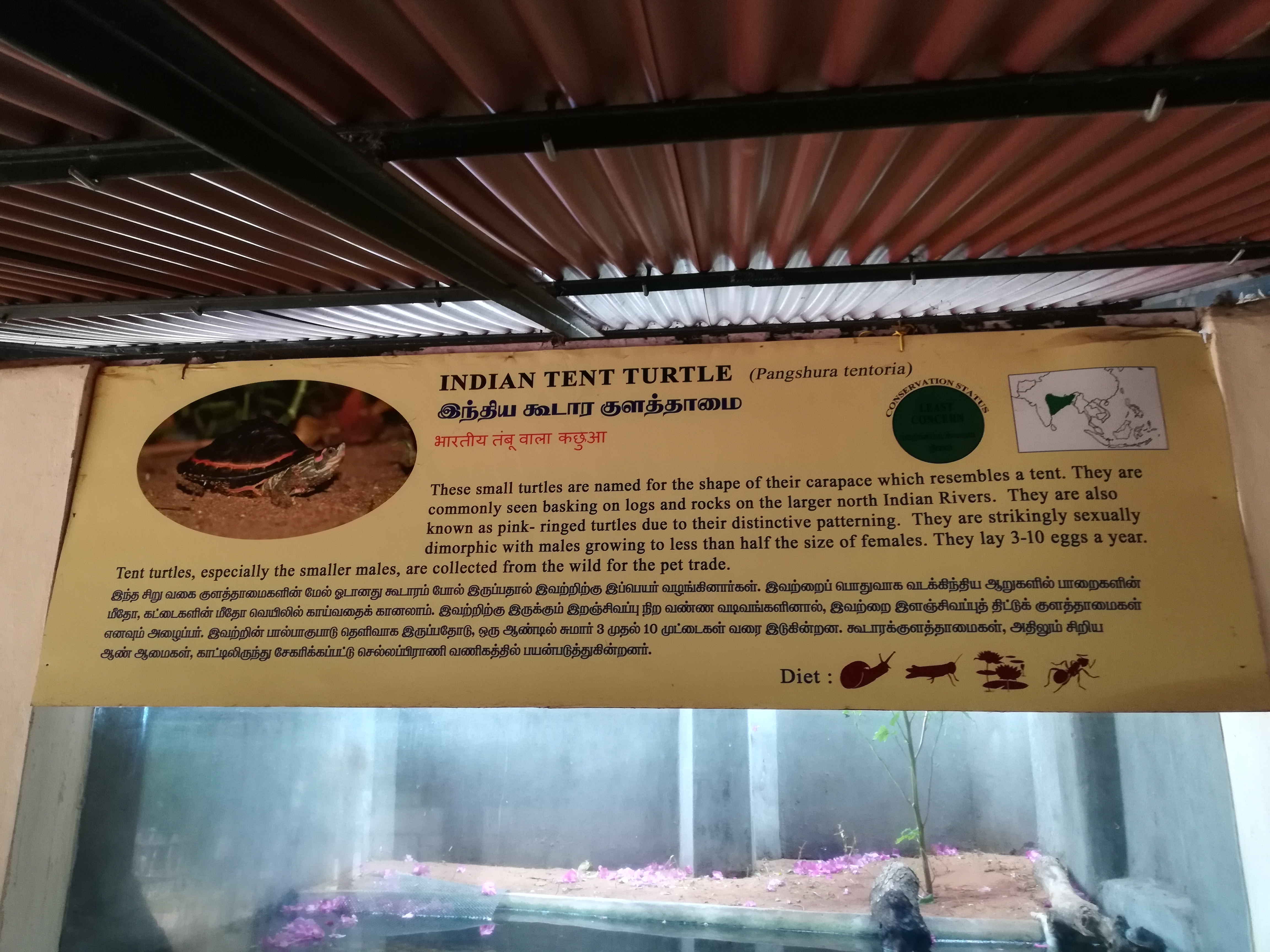 Typical specimen display boart at the CrocBank, Chennai, on 21 July 2018